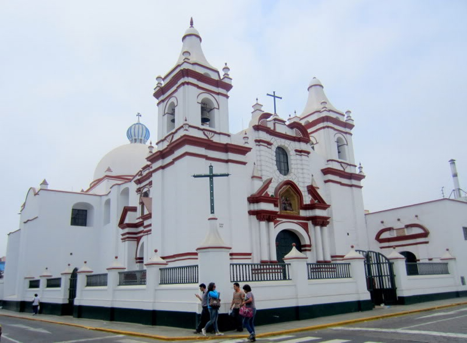 Iglesia Belen de Trujillo